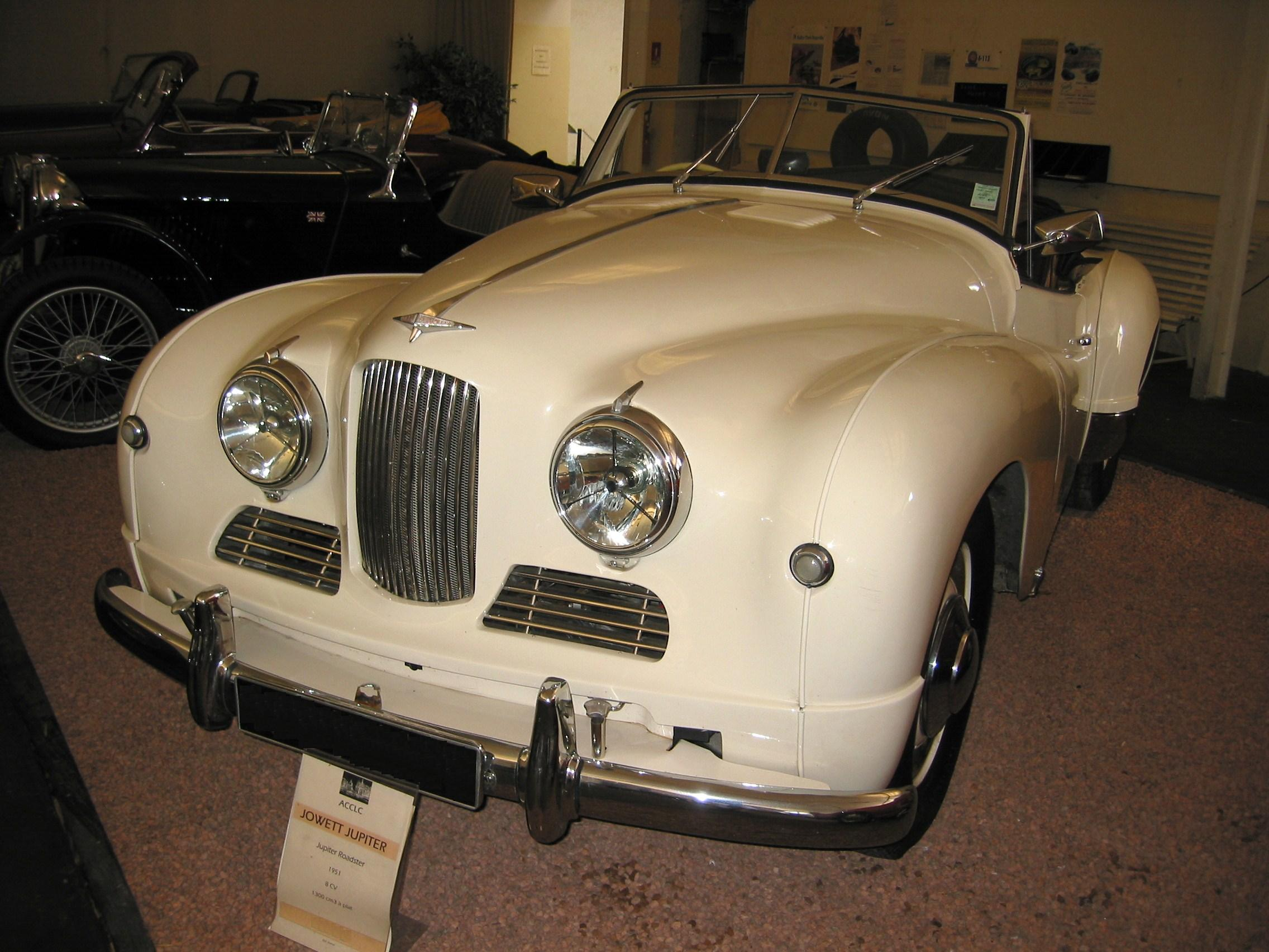 Jowett Jupiter 1951